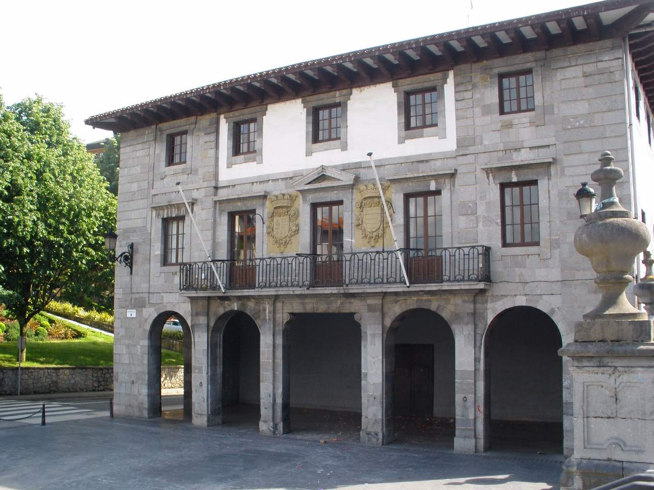 Ayuntamiento de Andoain